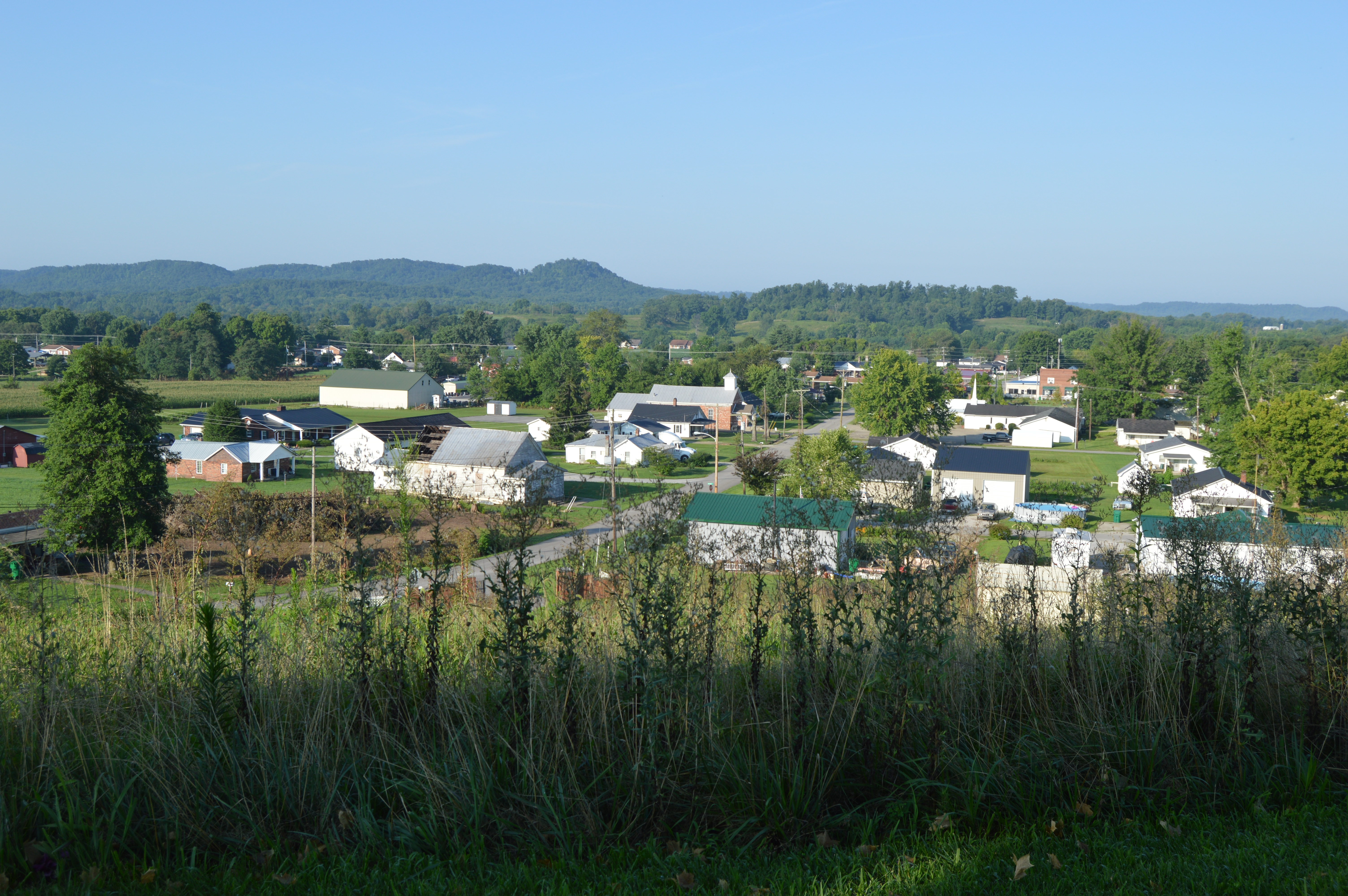 Overview of Crab Orchard, Kentucky, United States, seen from the city cemetery.